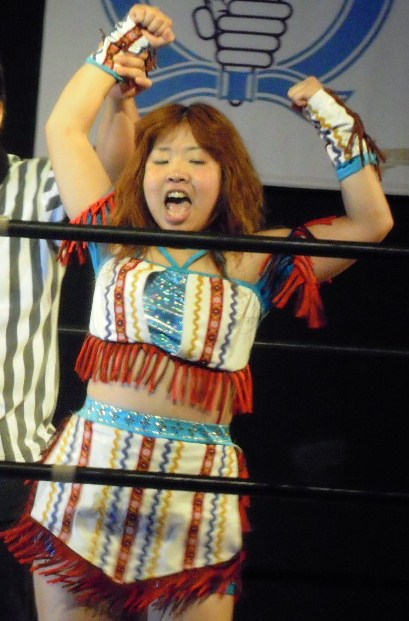 Japanese professional wrestler,Kaori Yoneyama. Jun 30 2010,IceRibbon.